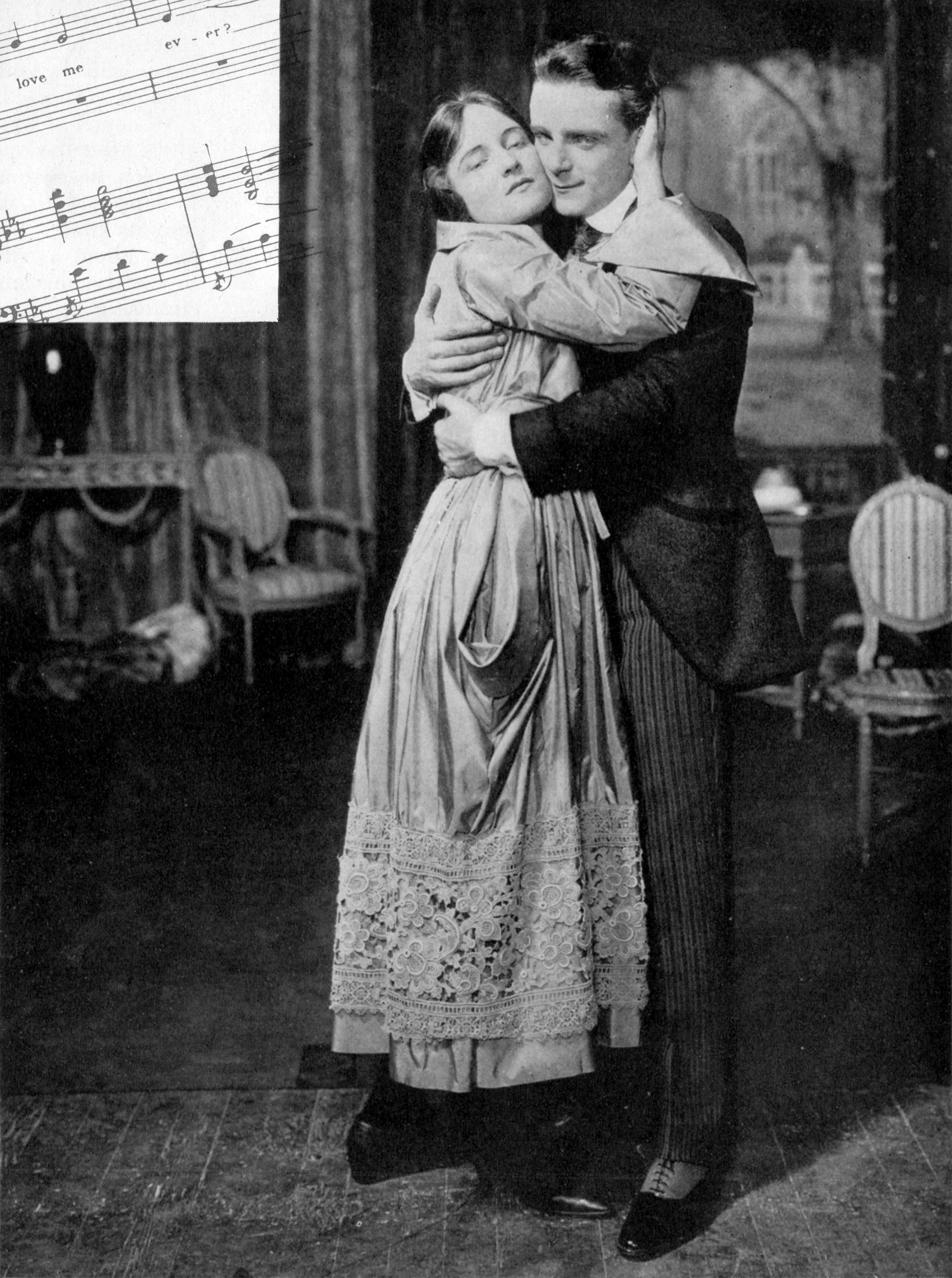 Promotional photograph of Peggy Wood and Charles Purcell in Maytime Caption reads as follows: A surprise denouement makes love triumphant in spite of all. The romantic climax of Act IV.